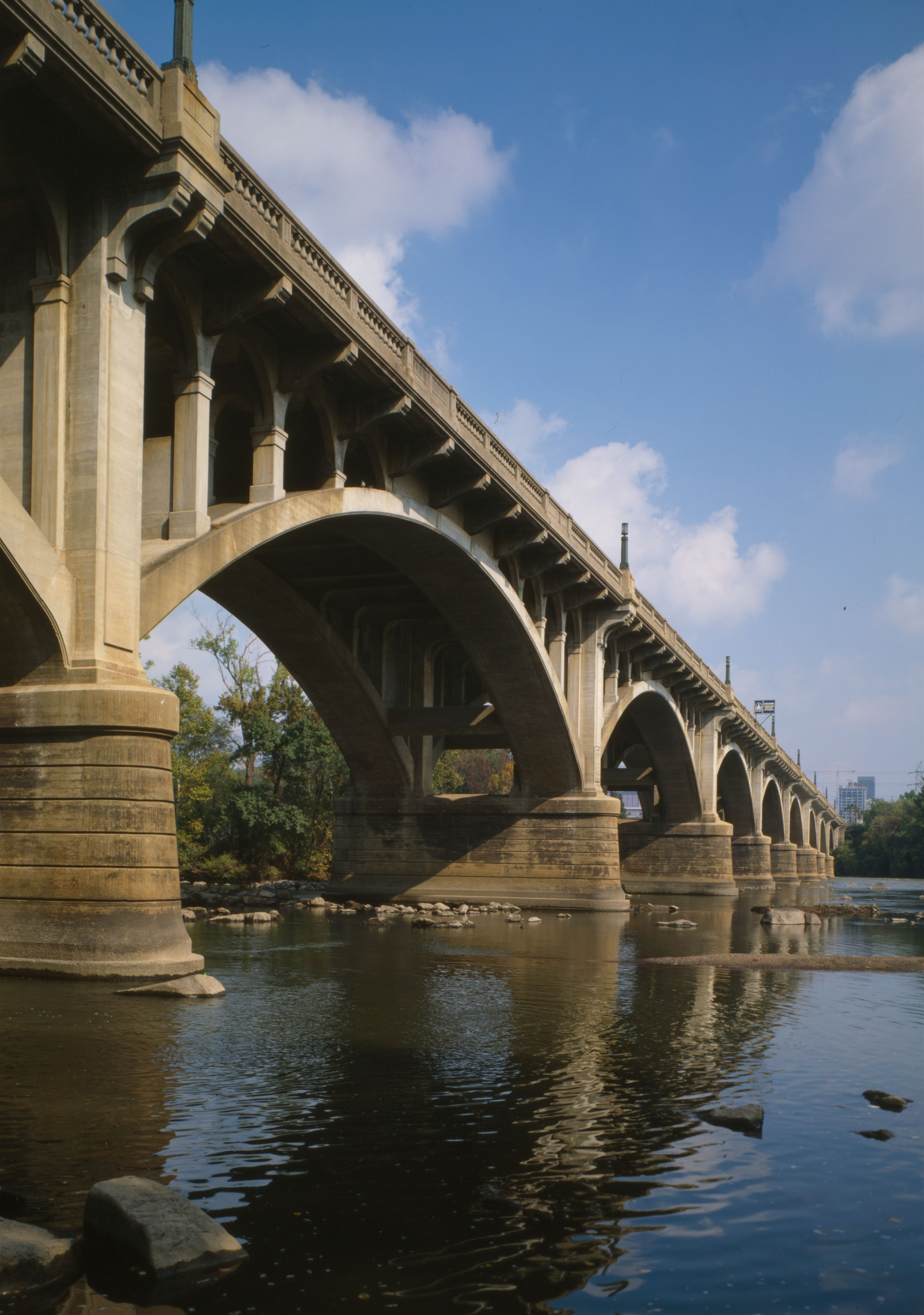 Gervais Street Bridge, Gervais Street spanning Congaree River, Columbia (Richland County, South Carolina).